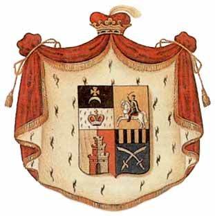 Coat of arms of the House of Shikhmatov